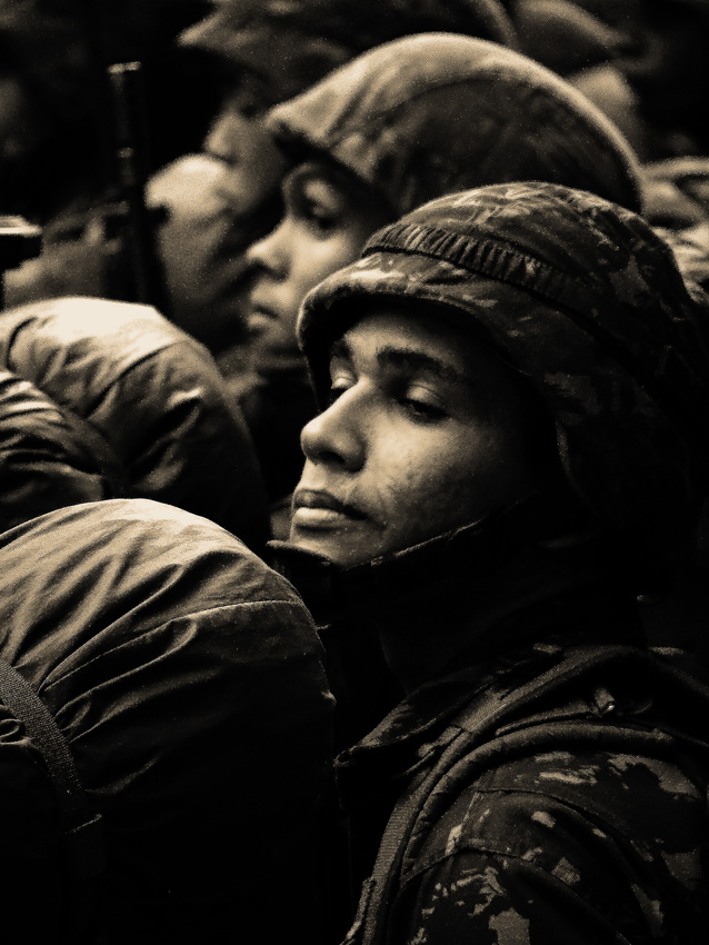 Soldiers, presumably from the Brazilian armed forces.